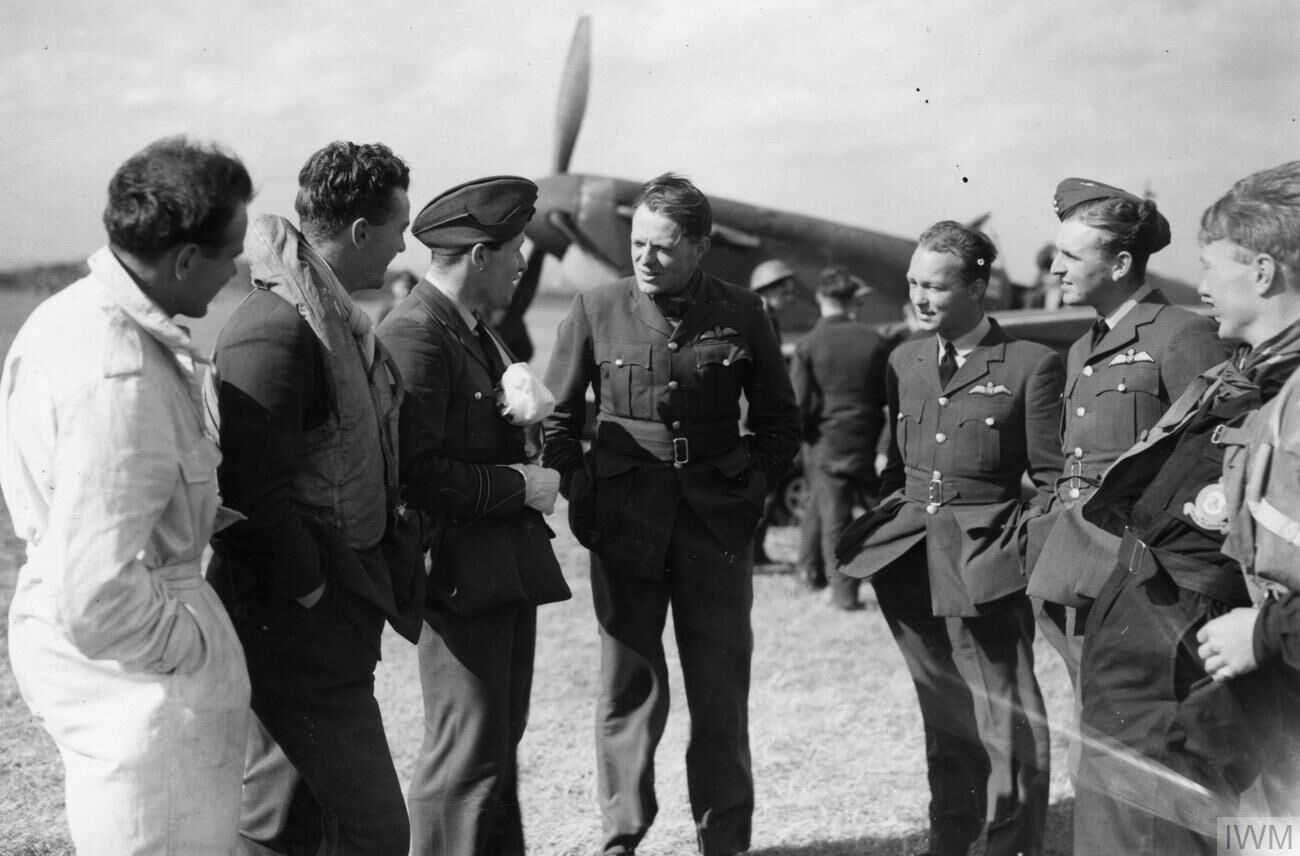 RAF Fighter Command 1940 Pilots of No. 66 Squadron at Gravesend, September 1940.